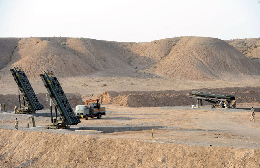 Three Zelzal 3 rockets can be placed on every launcher in the Great Prophet VI military exercise.